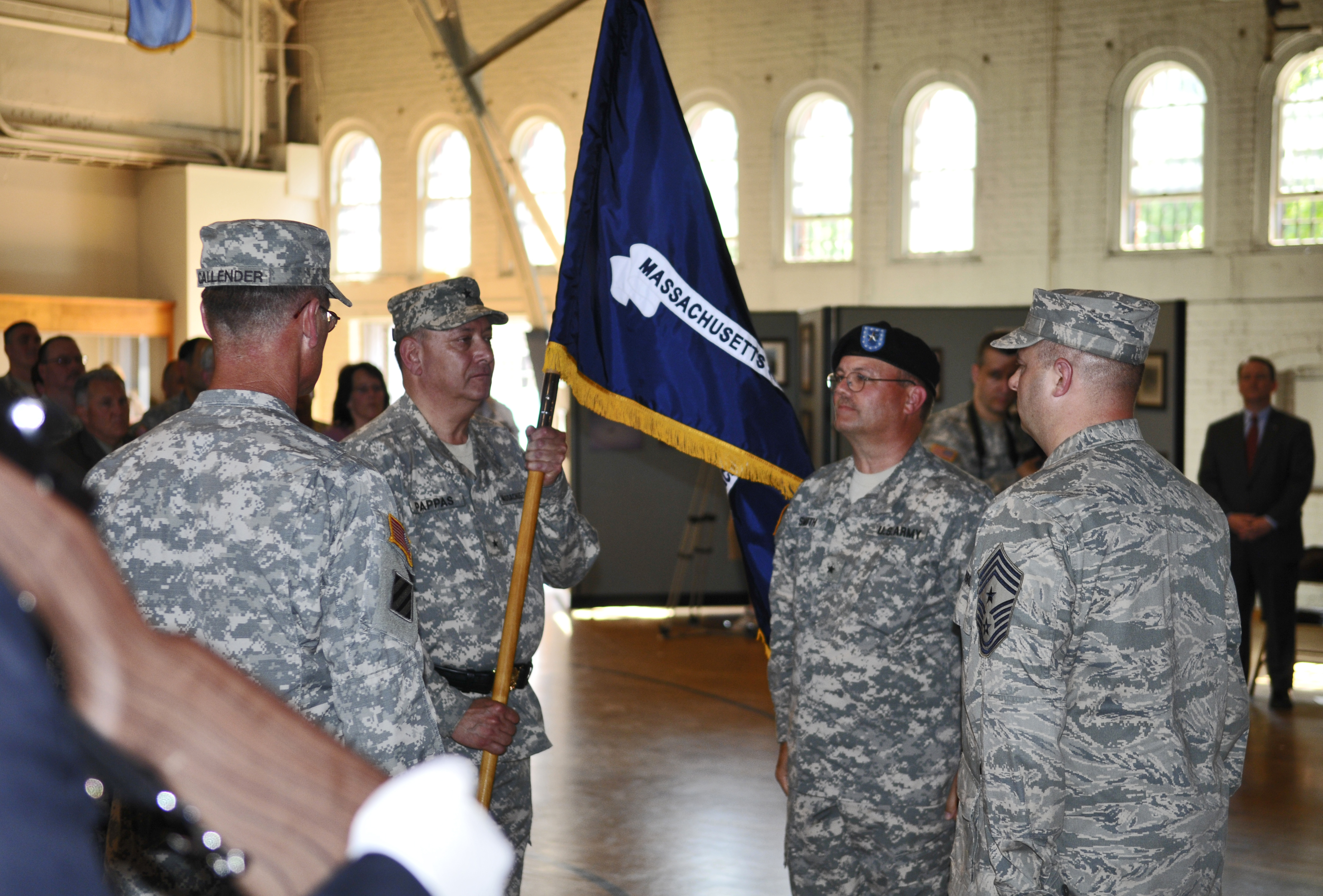 Brig. Gen. (Ret.) Gary Pappas, Commander, Massachusetts State Defense Force, holds his commands colors after receiving them from Brig. Gen. Paul G. Smith, Assistant Adjutant General, Massachusetts National, during the Massachusetts State Defense Force’s activation ceremony at the Massachusetts National Guard Museum and Archives, here, May 31, 2011.